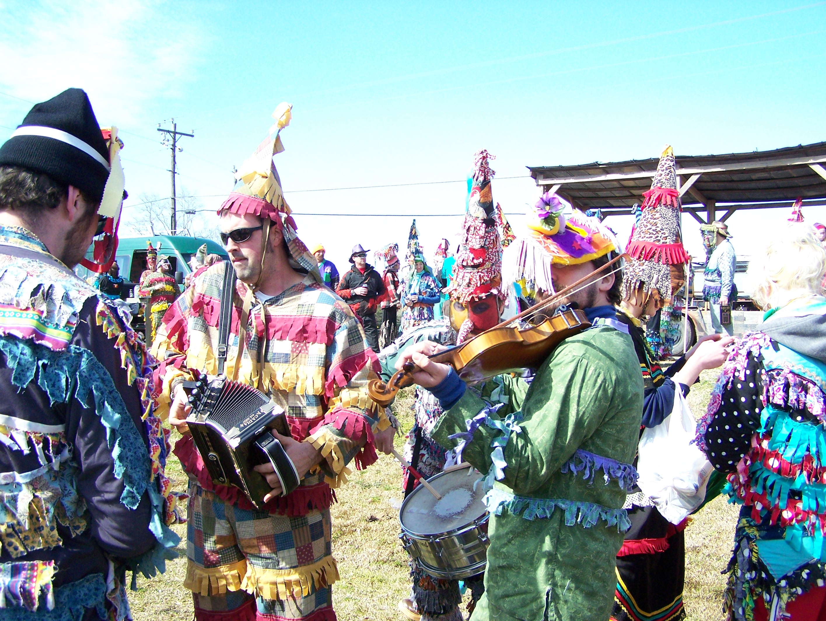 Wilson Savoy of the Pine Leaf Boys (cajun accordion player in sunglasses and patchwork costume) playing with other Cajun musicians at the 2010 Faquetigue Courir de Mardi Gras in Savoy, Louisiana.